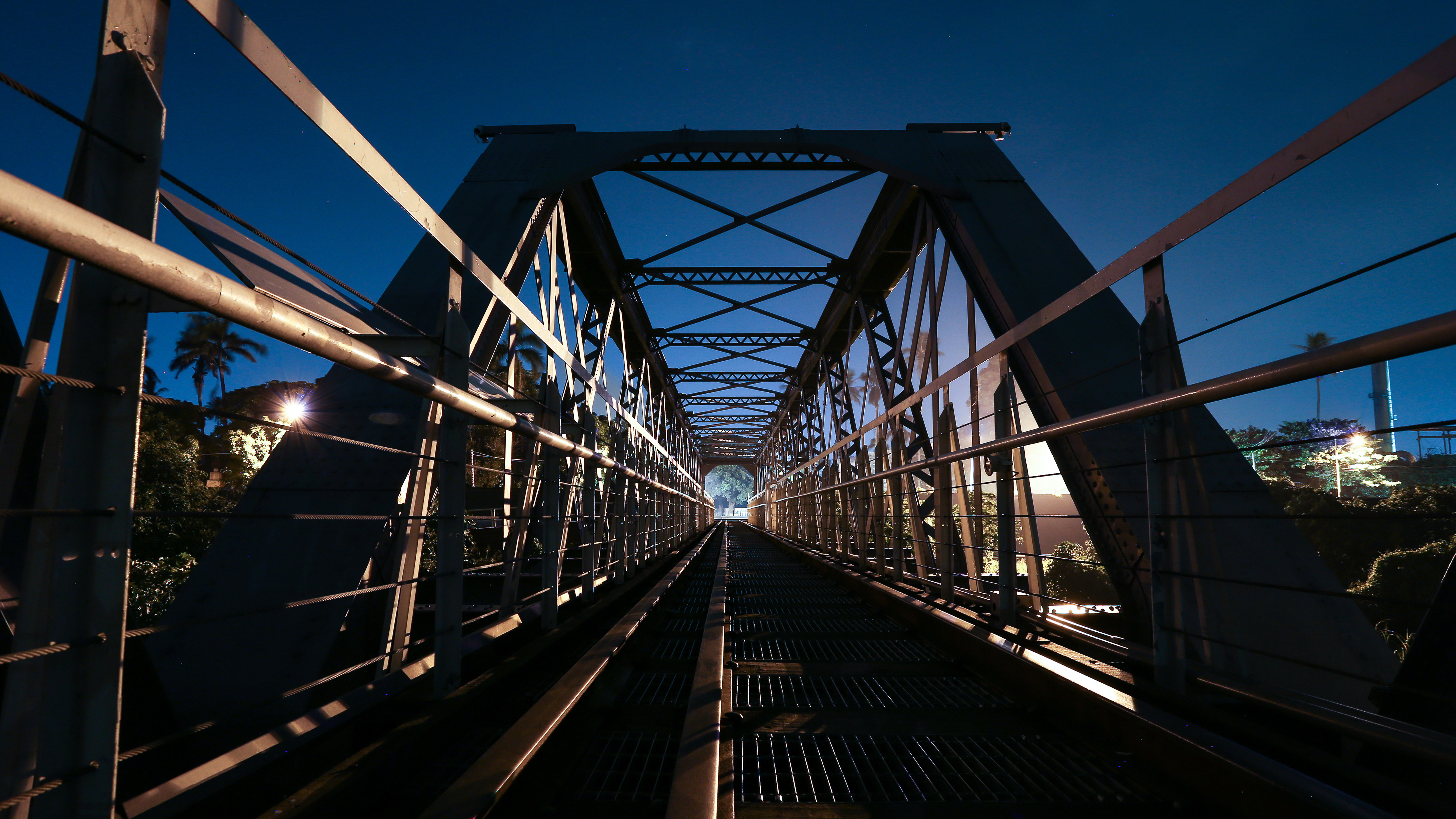 Huwei Steel Bridge, Huwei Township, Yunlin County, Taiwan.